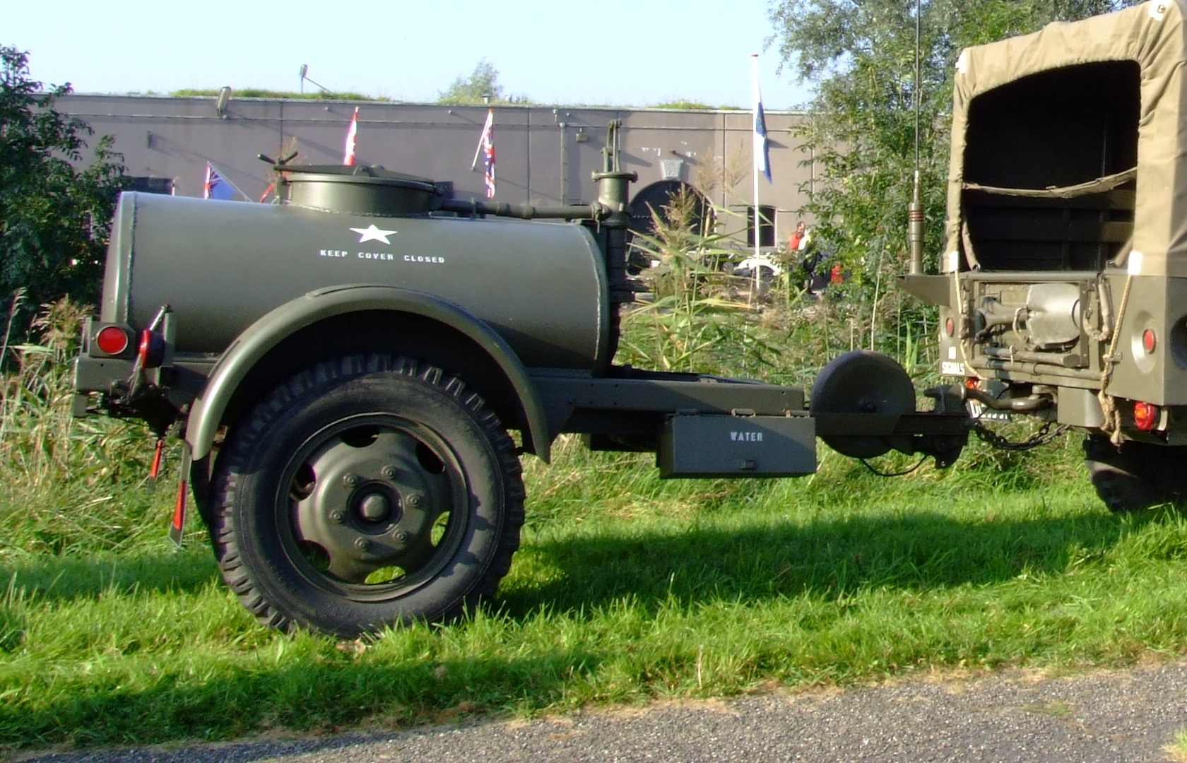 Dodge T223 (or WC62) Weapons Carrier with watertank trailer.